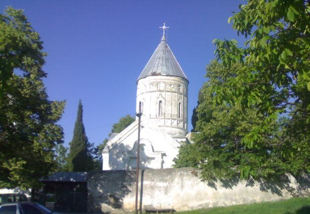 Churh of white georg